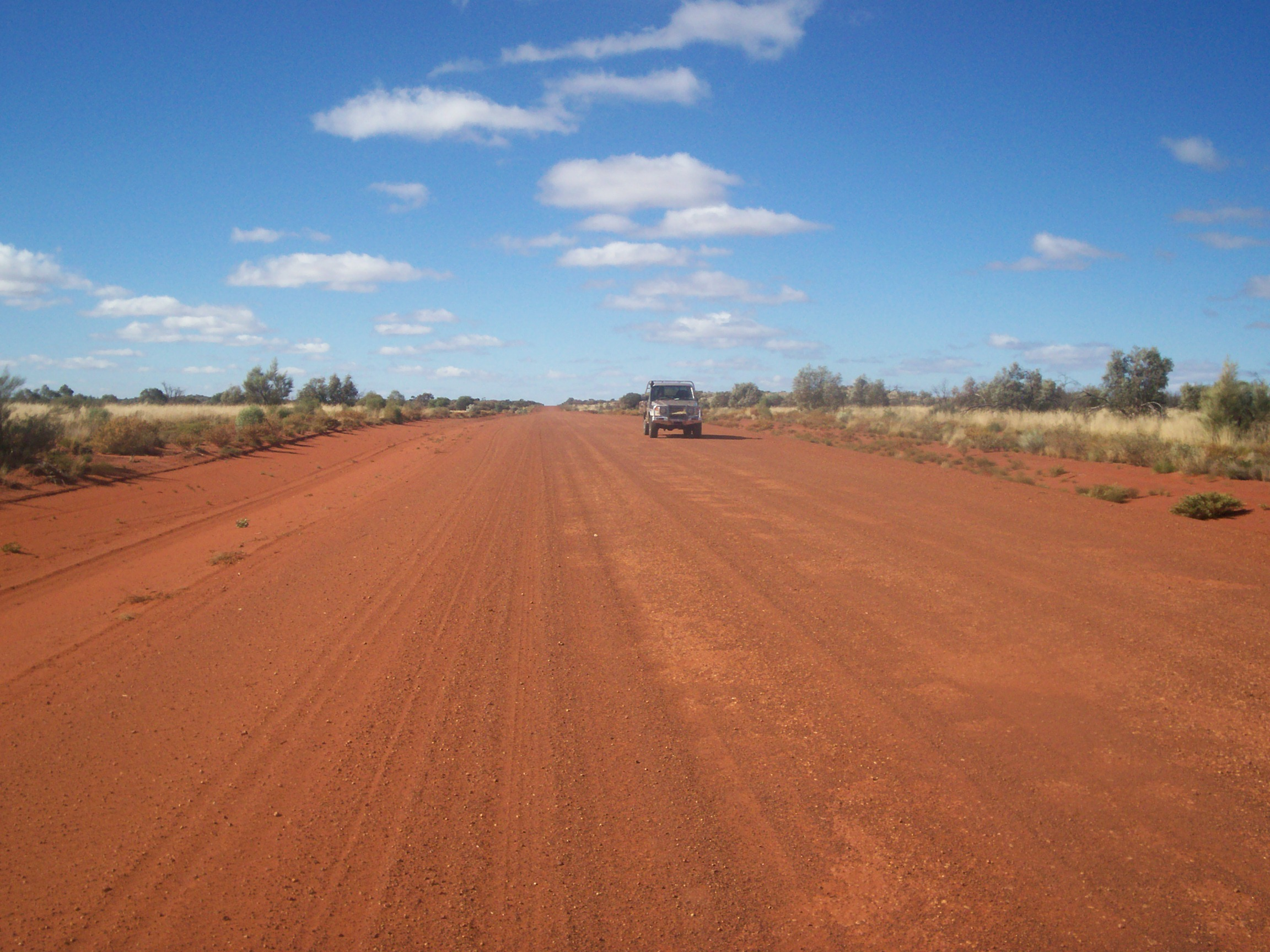 Great Central Road just south of Tjukayirla Roadhouse looking north. Photo taken by Gazjo on 3 July 2007